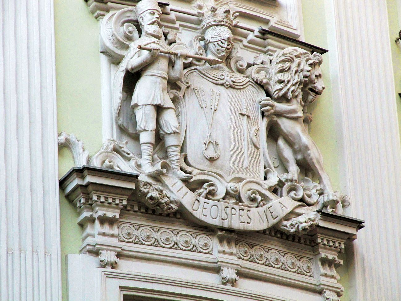 The Blazon of Gudovich family on their house - Moscow, Bryusov Lane,21. The Latin motto means "In Deo Spes Mea" (In God is My Hope). Architect (1898 rebuild) S.K. Rodionov.